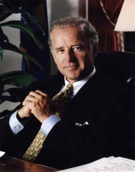 Joe Biden, U.S. Senator from Delaware.